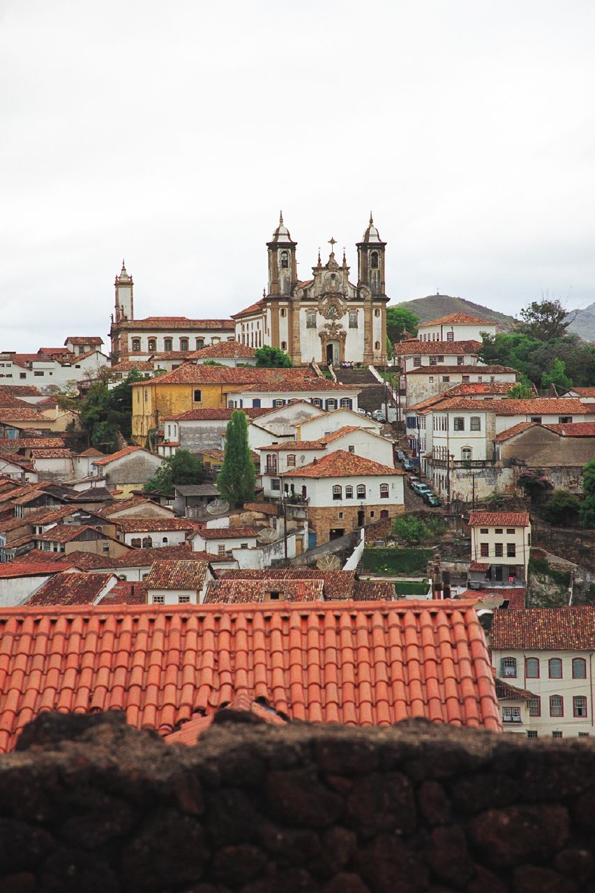 Carmo Church overlooking Ouro Preto, Brazil